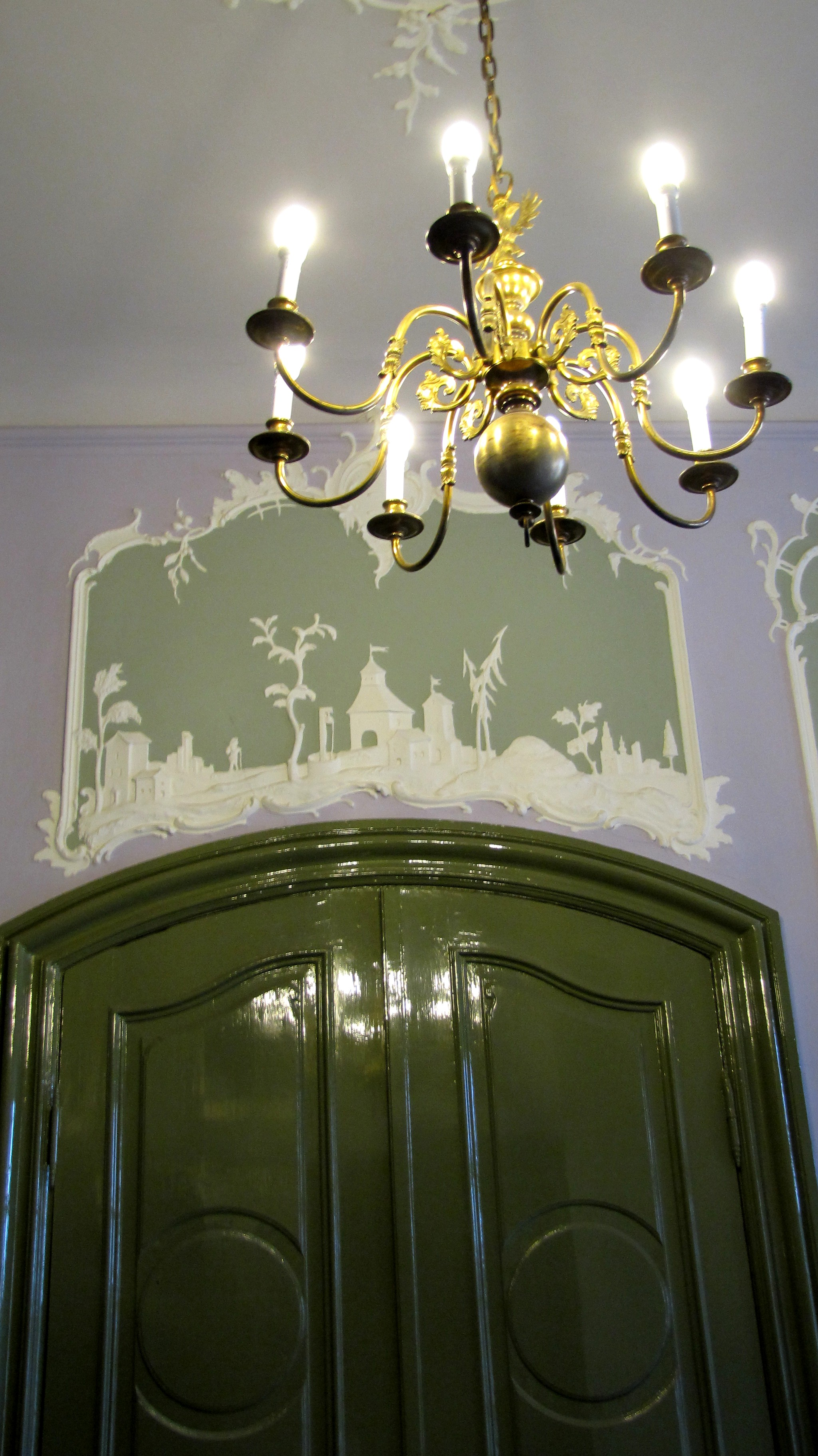 Chinoiserie stucco work on second floor landing in Königstr. 81, Lübeck